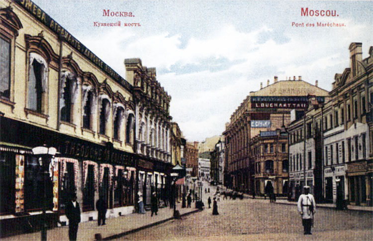 Kuznetsky Most. A view from the street Petrovka to side of the street Rozhdestvenka at the end of the XIX century